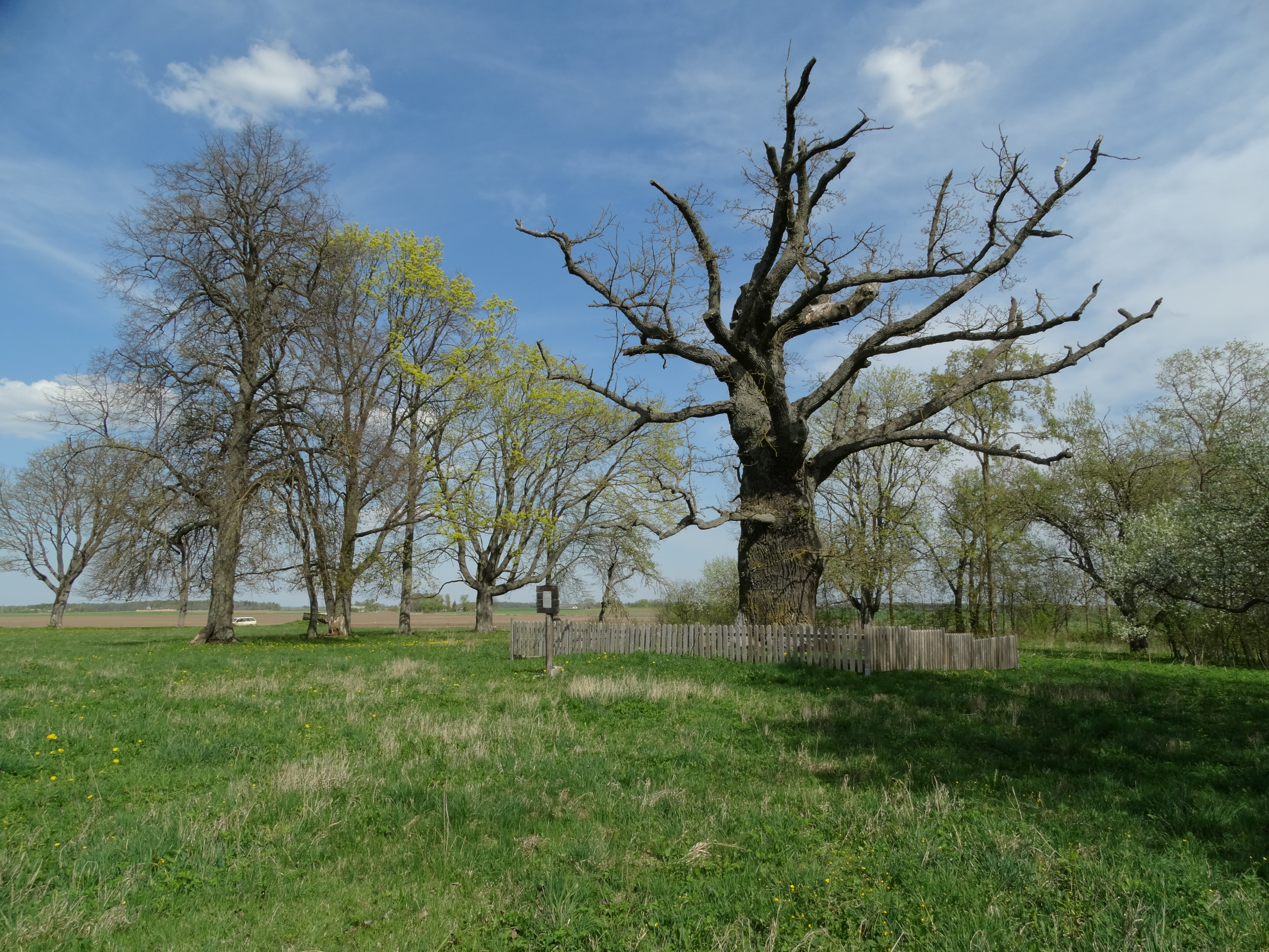 Dapšioniai Oak, Radviliškis District, Lithuania